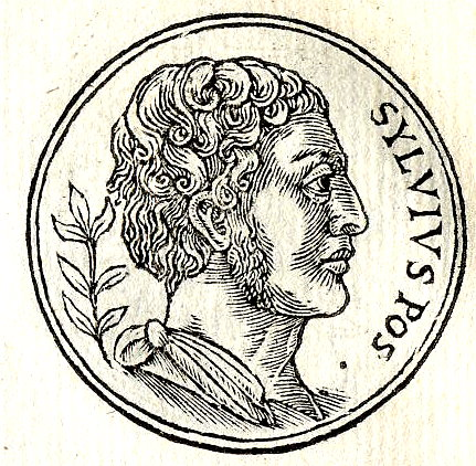 Aeneas Silvius is the son of Silvius, grandson of Ascanius and great-grandson of Aeneas.